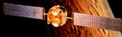 Hermes Communications Technology Satellite